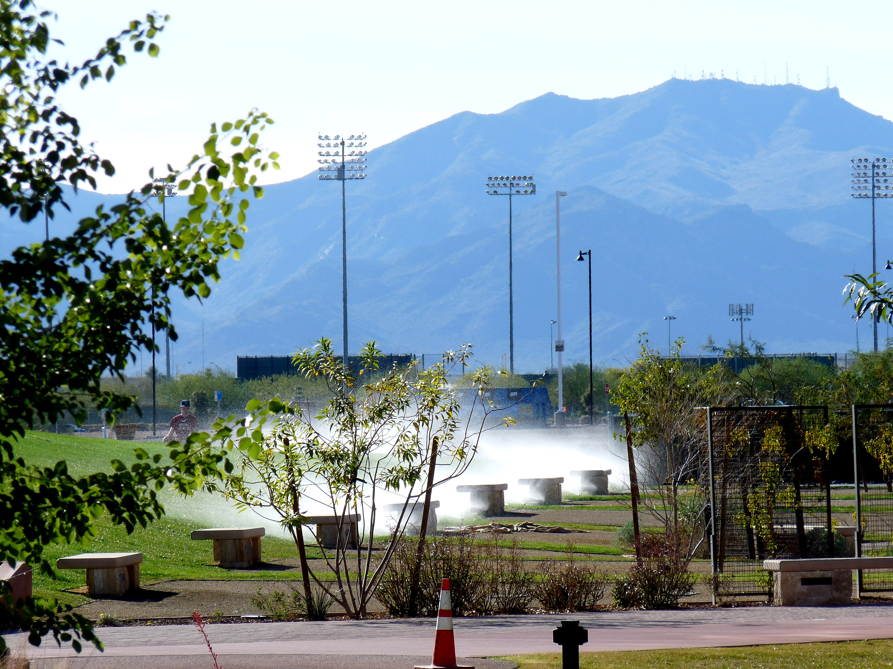 The image represents the new stadium of the City of Surprise, Arizona, USA. In the background, there is a portion of the White Tank Mountain.